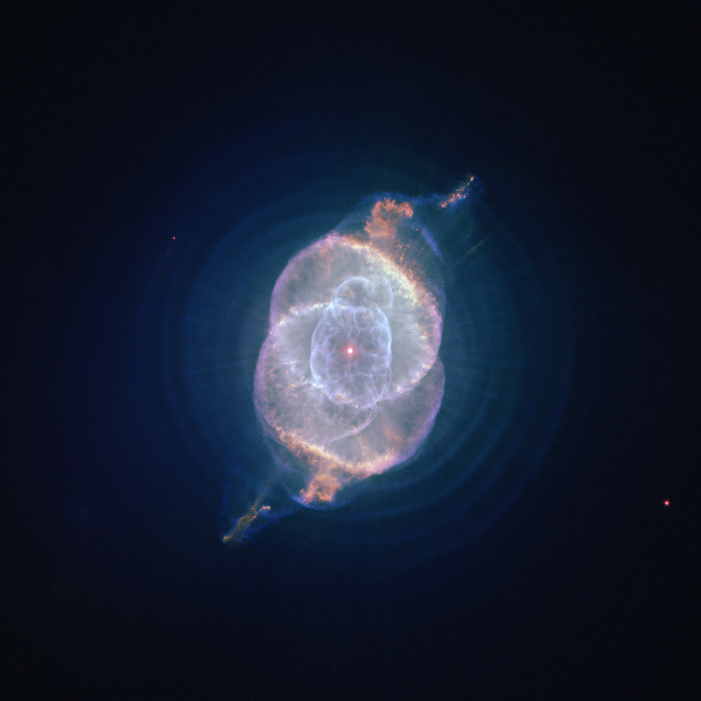 The elegant, delicate Cat's Eye is one of the most processed nebulas in the archive. With that in mind, the data was surprisingly a pain to get, being apparently available only as exposures and requiring a DADS request. It was strangely clean for uncombined images, though, and I suspect something got misplaced somewhere along the line. Anyway, I decided I didn't want to go overboard on the processing. The concentric rings are meant to be faint. Intricate knots of Hα are highlighted and sharpened in red and yellow while OIII glows brightly in blue, my favorite colors for both of those filters. I do wish I understood the nuances of the filters better. Both f656n and f658n are listed as Hα and I somehow managed to put the longer wavelength in the green channel instead of the red but it seems to look good like that anyway. Or maybe I mislabeled it. The data was kind of a mess. It should be noted that a lot of the nebula is only visible in a wider field . This is only the inner portion or iris of the Cat's Eye. Red: f656n Green: f658n Blue: f505n+f502n